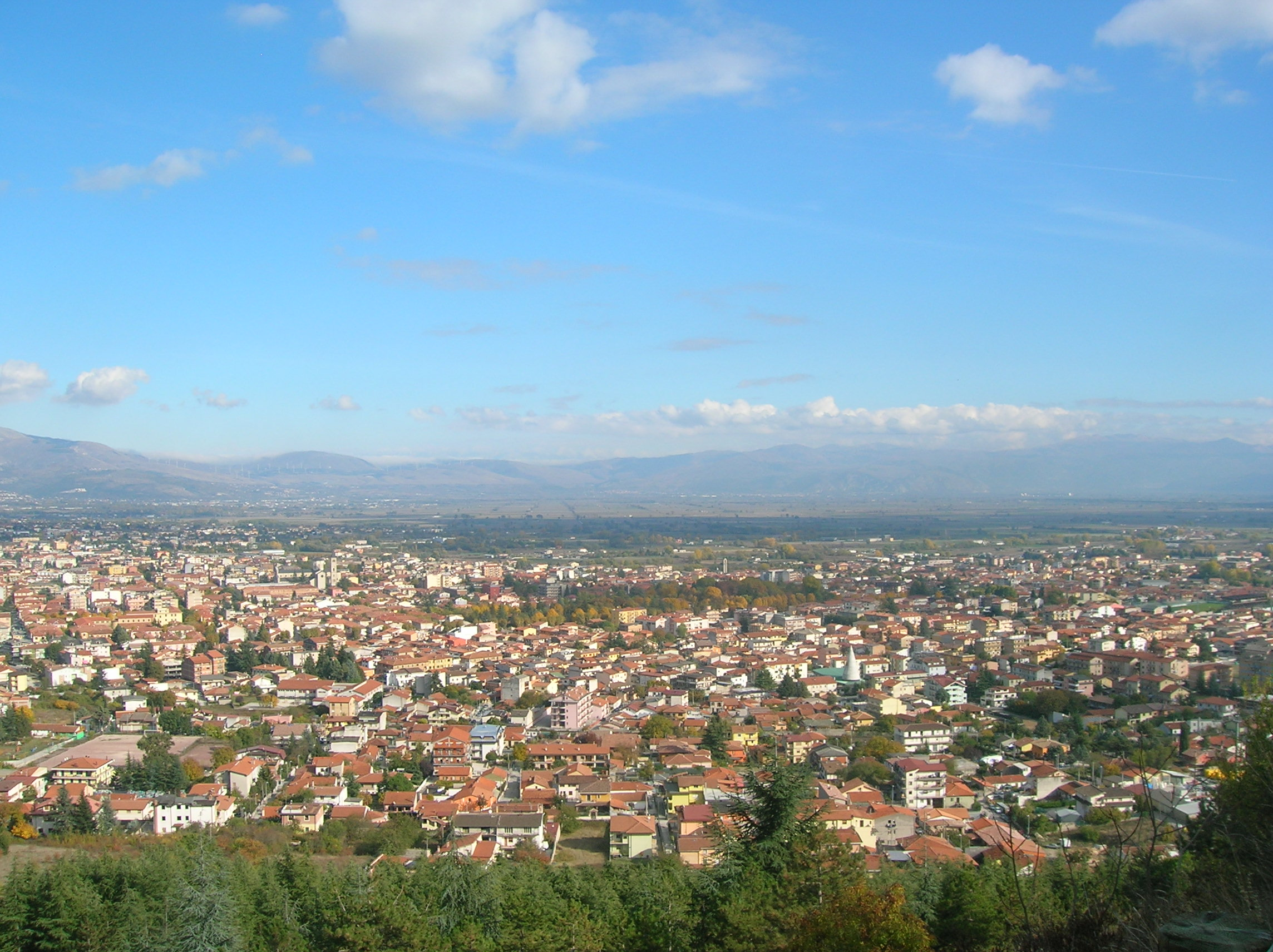 The city of Avezzano, in the Province of L'Aquila (Abruzzo, Italy) as seen from Mount Salviano (looking to right)